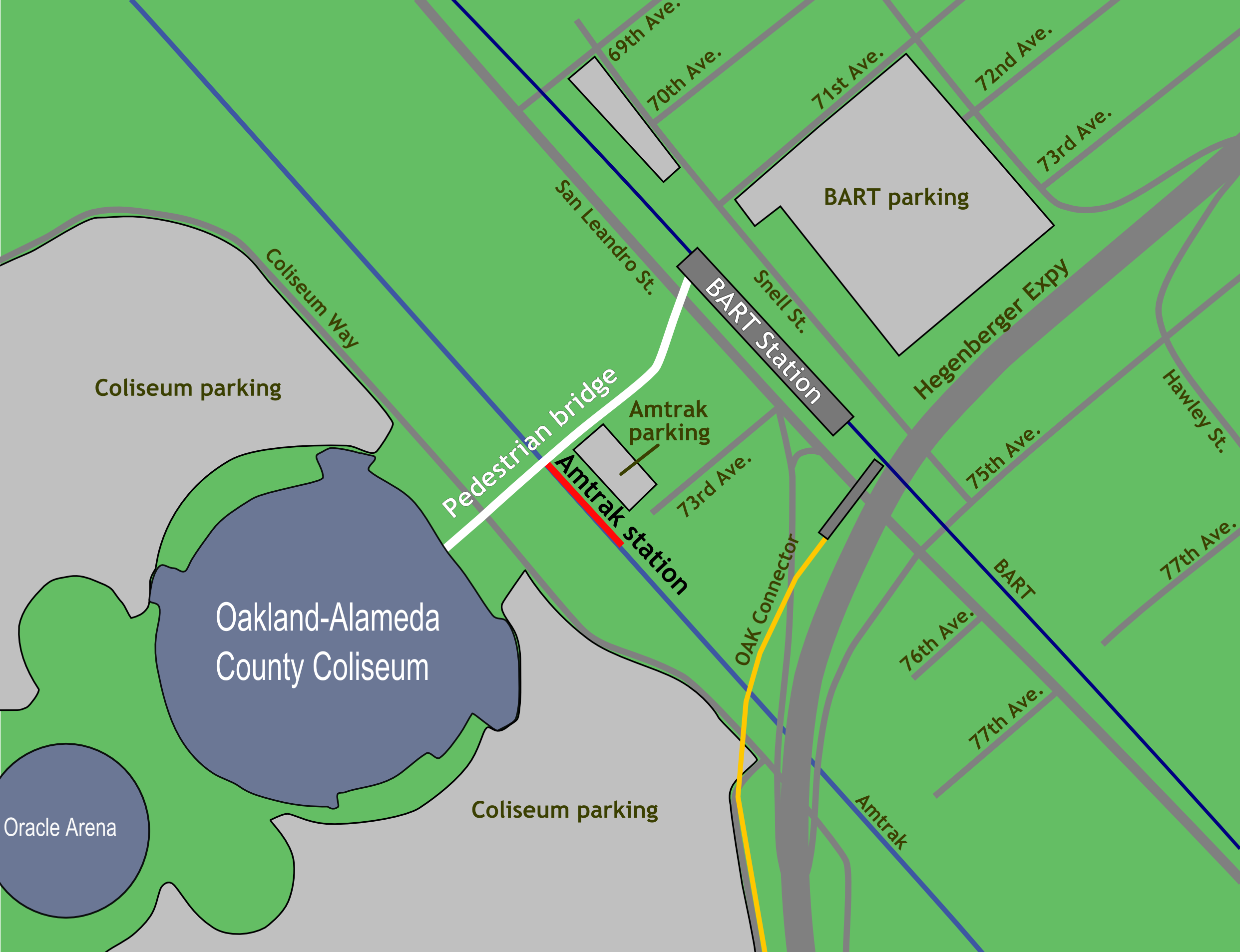 Oakland Coliseum area with transit connections shown